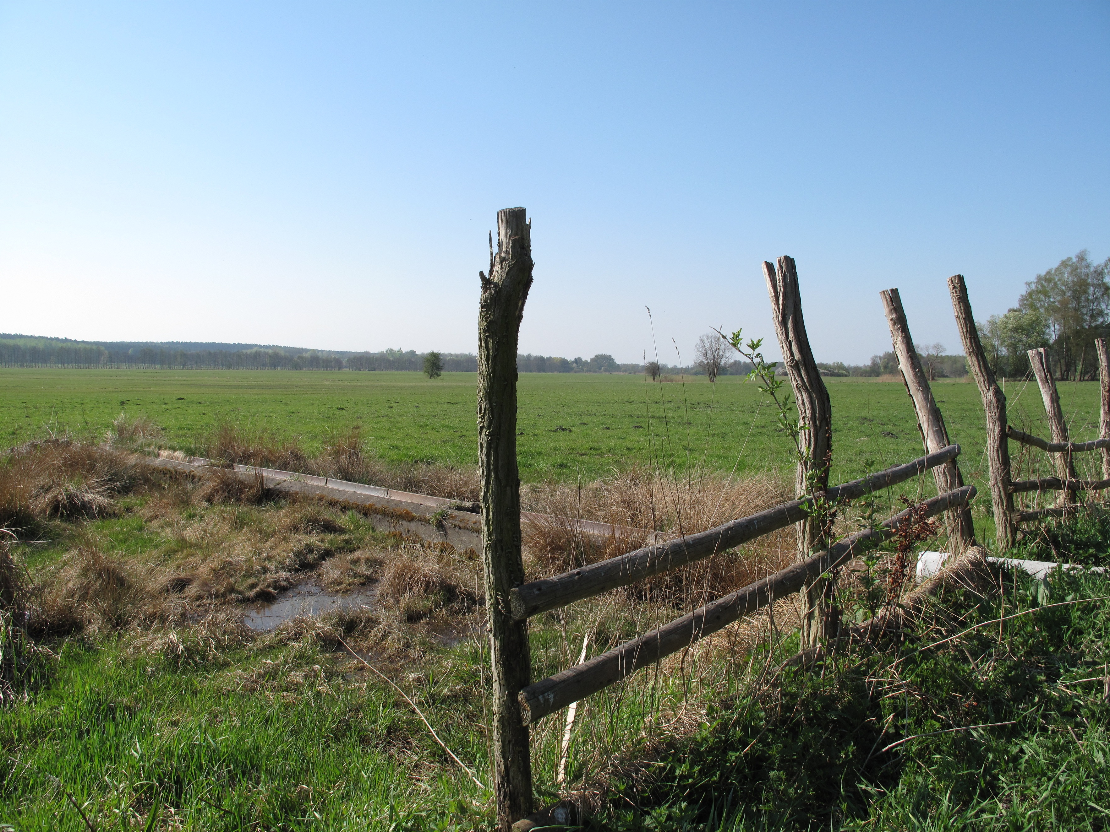 The Rotes Luch is a fen area in the hill country „Märkische Schweiz“ and the Märkische Schweiz Nature Park, Brandenburg, Germany. The in the 19th century drained grassland is the Drainage divide (River bifurcation) and the river source for the Stobber (towards northeast, Baltic Sea) and Stobberbach (towards southwest, North Sea).